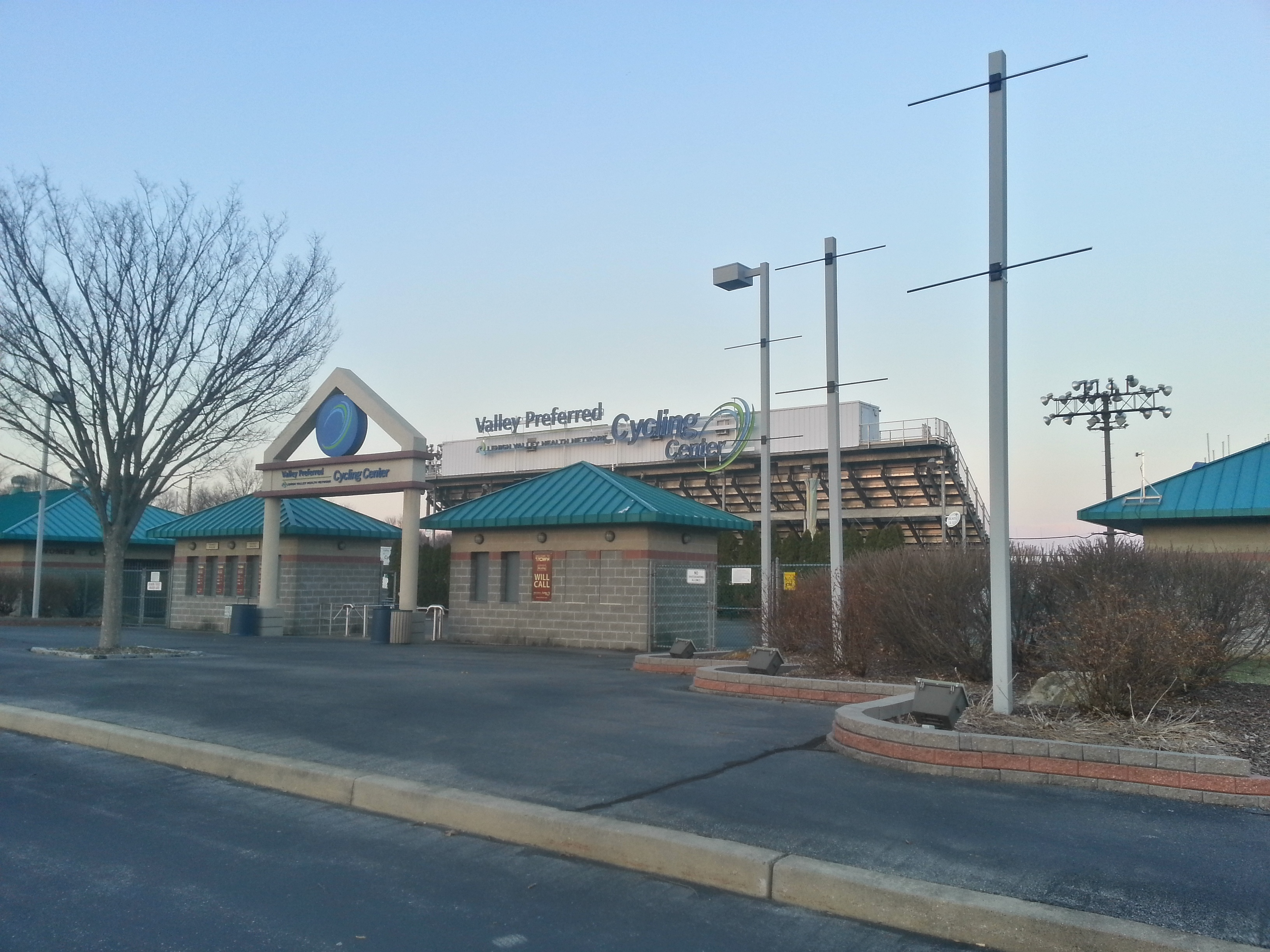 Entrance to the Valley Preferred Cycling Center.